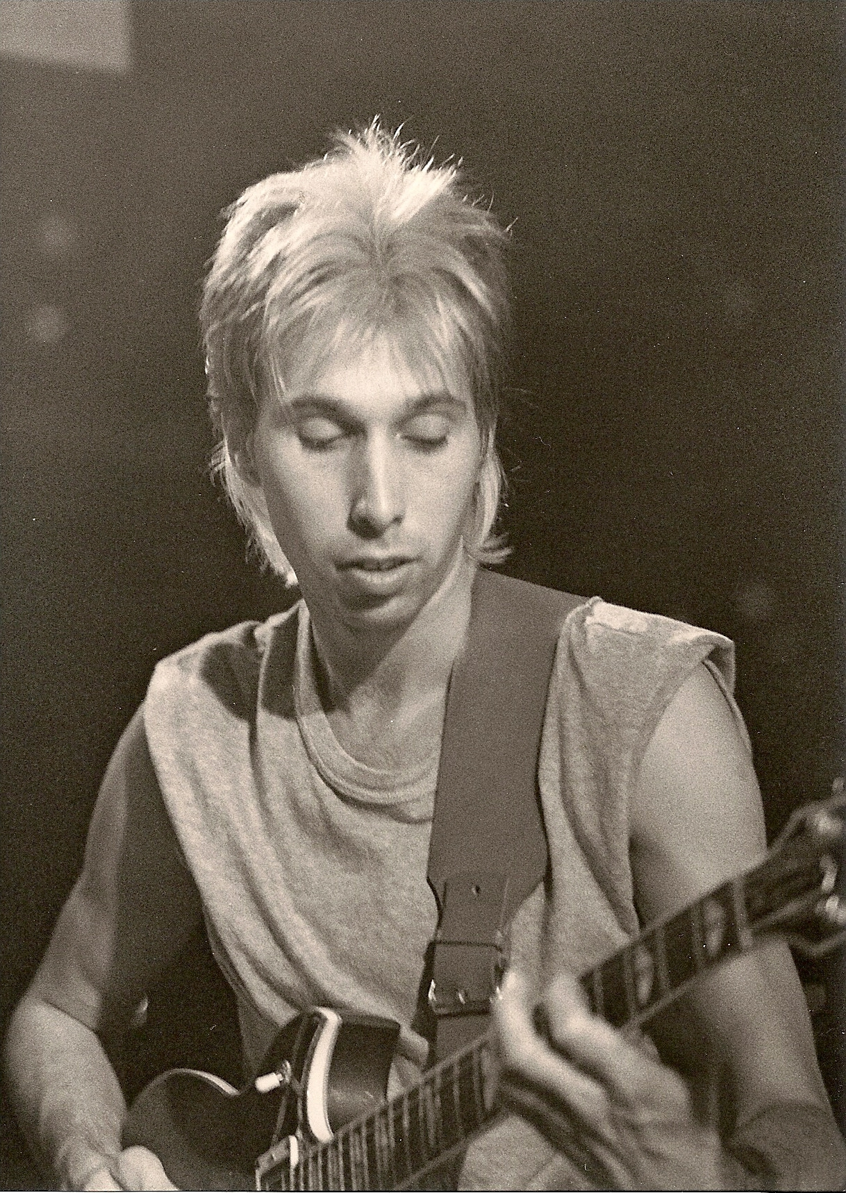 live Frank Boeijen Groep